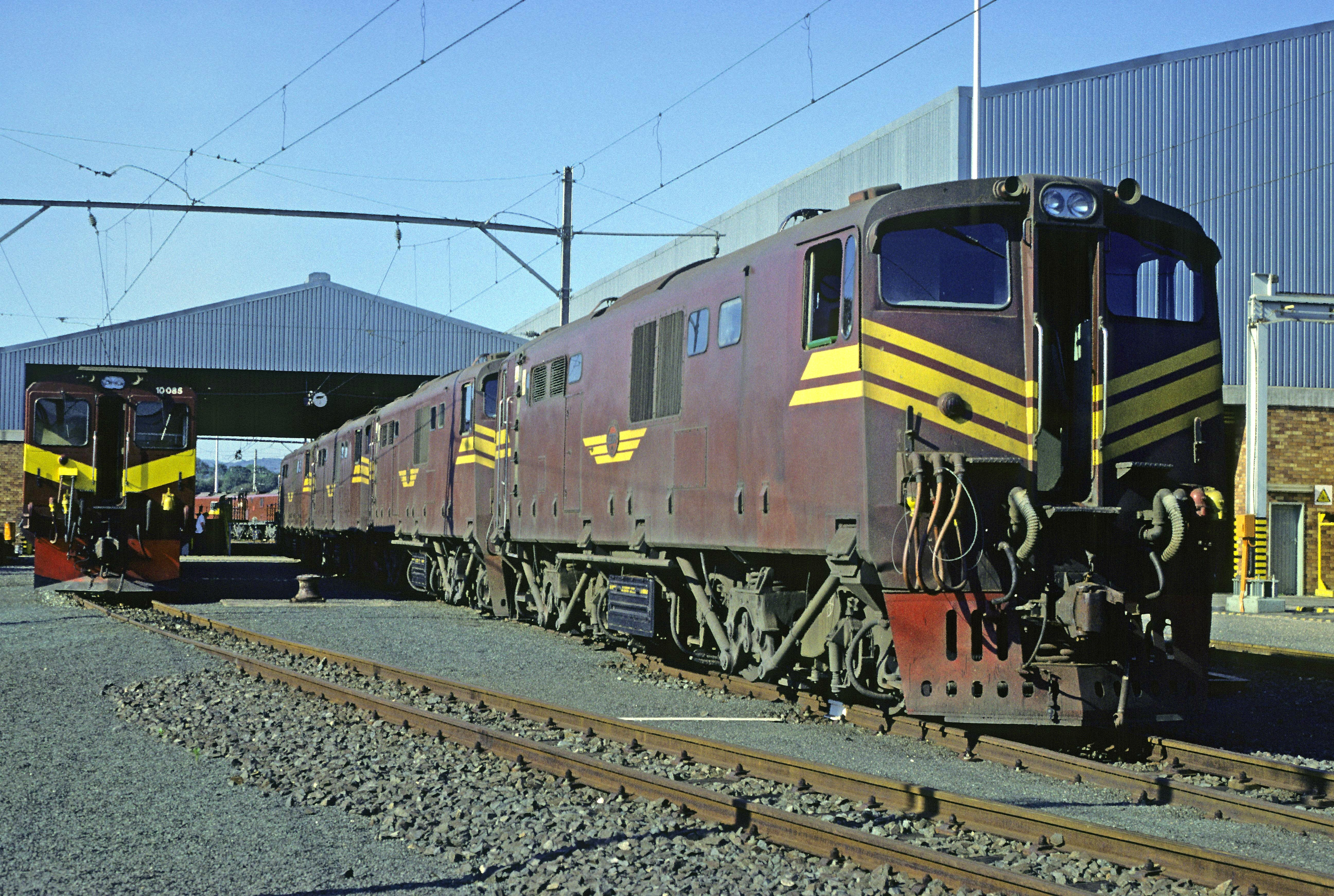 SAR Class 6E1 Series 10 E2133 Location: Nelspruit, Transvaal Rebuilding: In 2004 E2133 was withdrawn from service and rebuilt to Class 18E 18-123